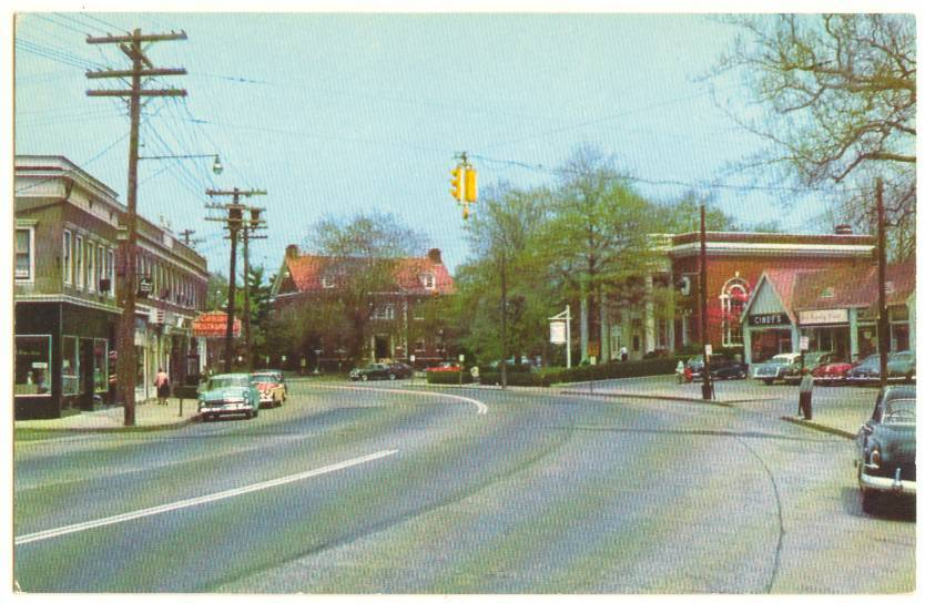 Vintage Postcard of Post Road in Fairfield, Connecticut, 1956